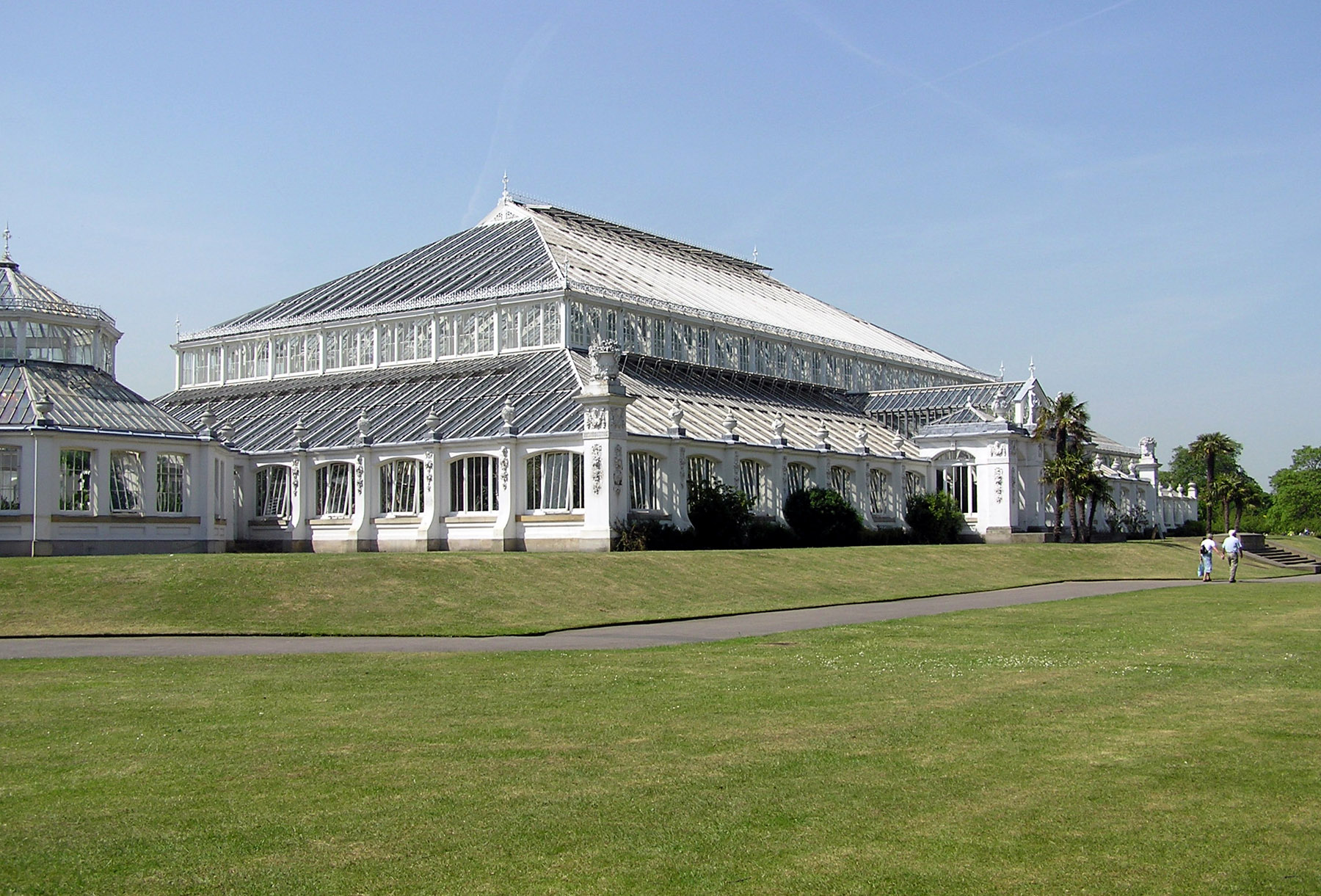 The Temperate House at Kew Gardens was partially built 1860-1863, work then stopped for financial reasons and the building was completed 1895-1898. This greenhouse is twice the area of the Palm House.